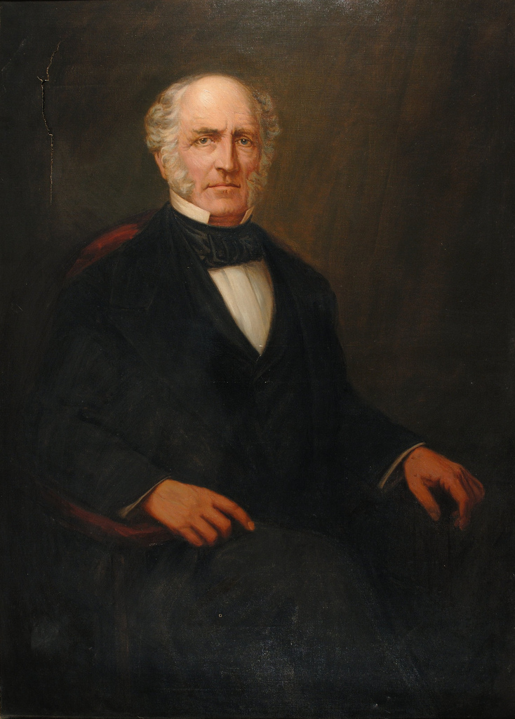 By Julia Redding Kelly (1873-1939) Oil on canvas, 1930 49.5"x35.5" Location: North Academic Center Gift of the Class of 1873